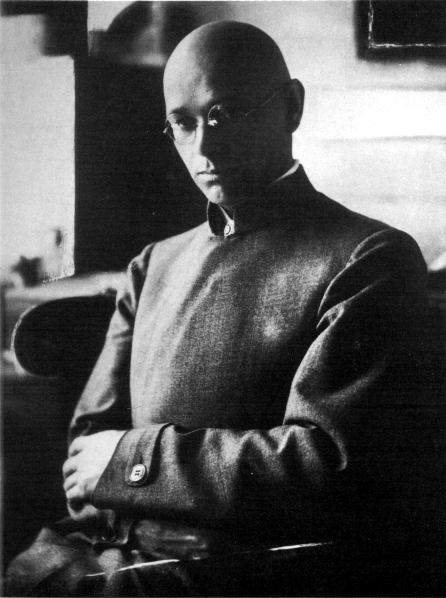 Johannes Itten 1888–1967